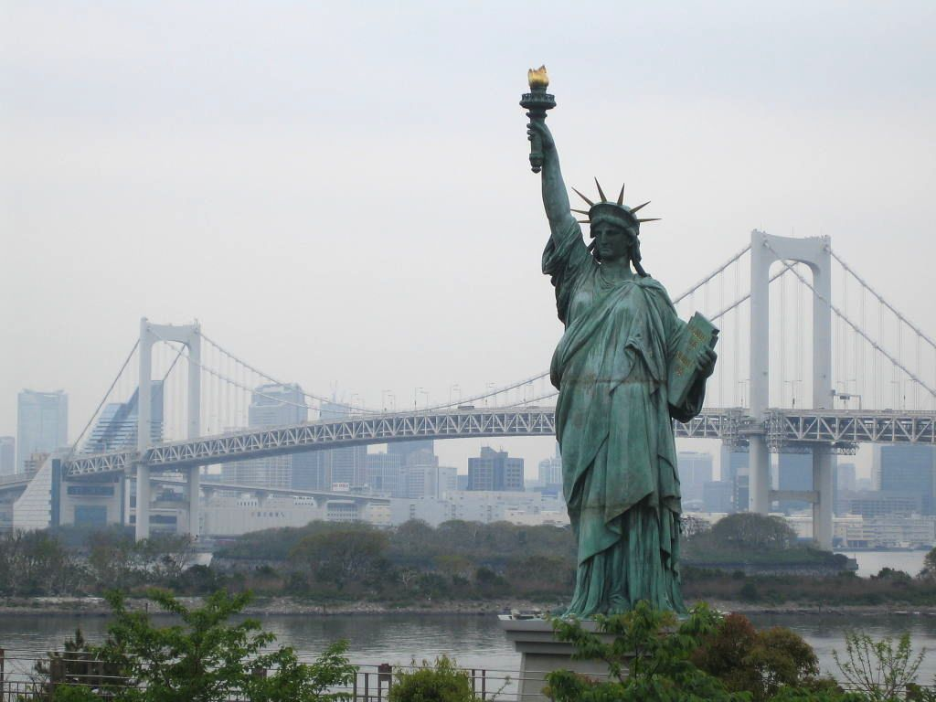 m